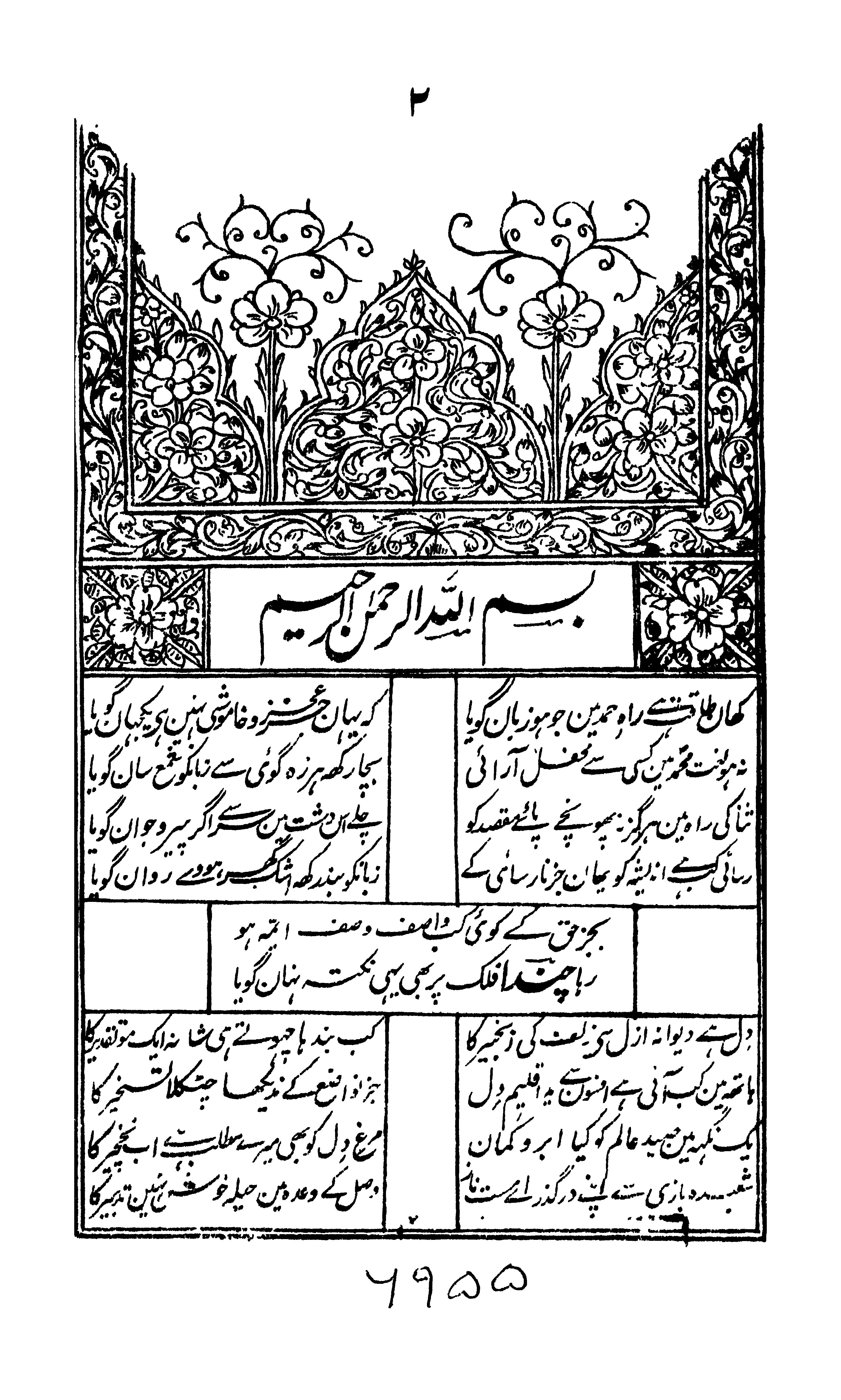 this is the first page of mah laqa chanda's deevan, as it was published in 'hayat e mah laqa ma'e deevan' by Ghulam Samdani Khan Gauhar.